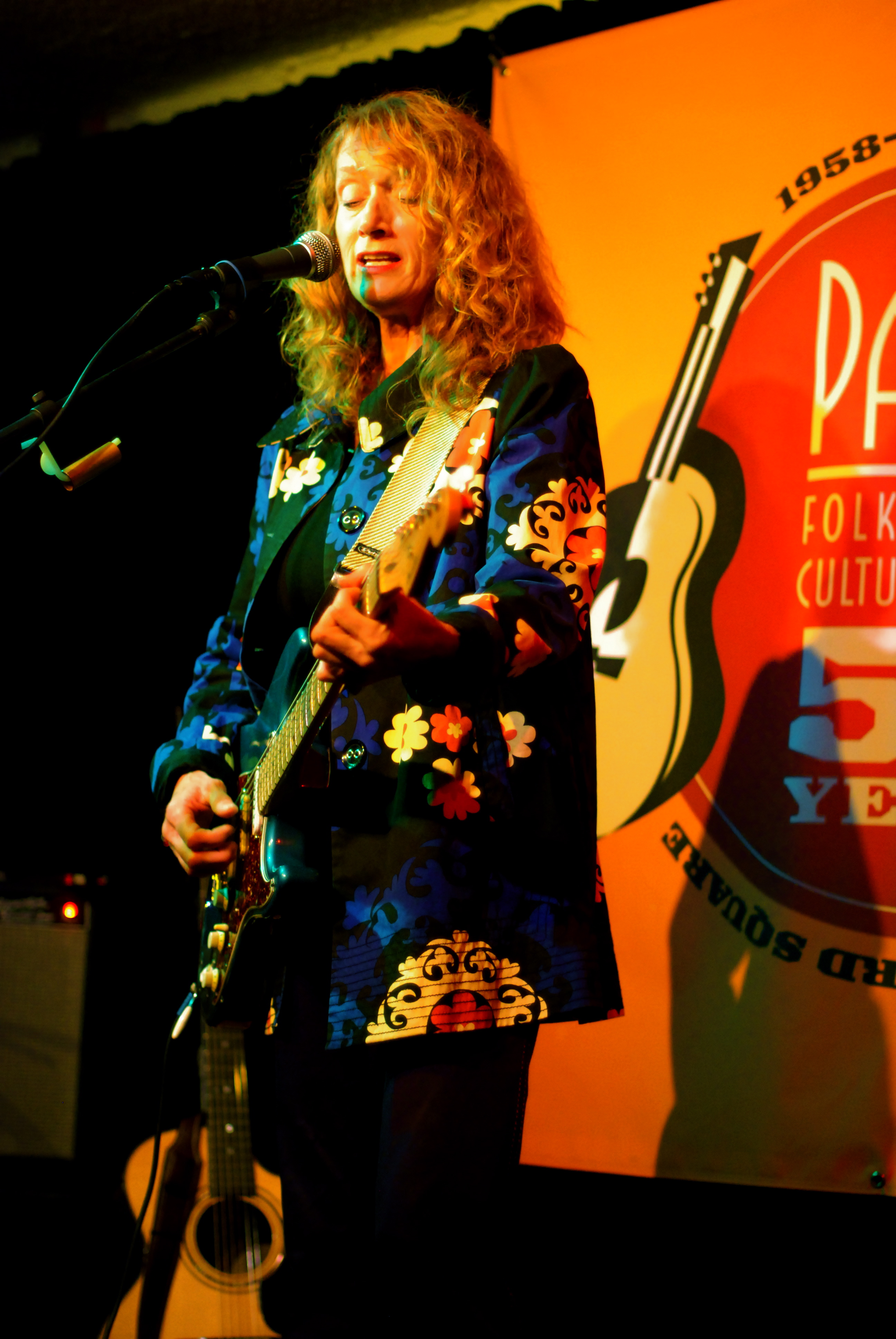 Patty Larkin at Club Passim - Saturday's Legacy Series show